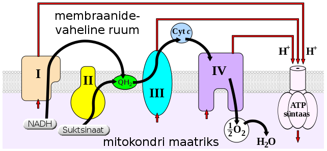 Schematic representation of the electron transport chain.